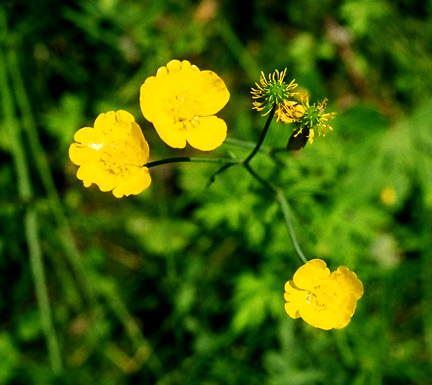 The buttercup (Ranunculus spp) occurs in many variations over many species, and can be found in a variety of habitats. This photo shows a group of Tall buttercups (R. acris) which bloom from June through August in low, damp meadows. Ø2004 D. Windrim Captioned As { }